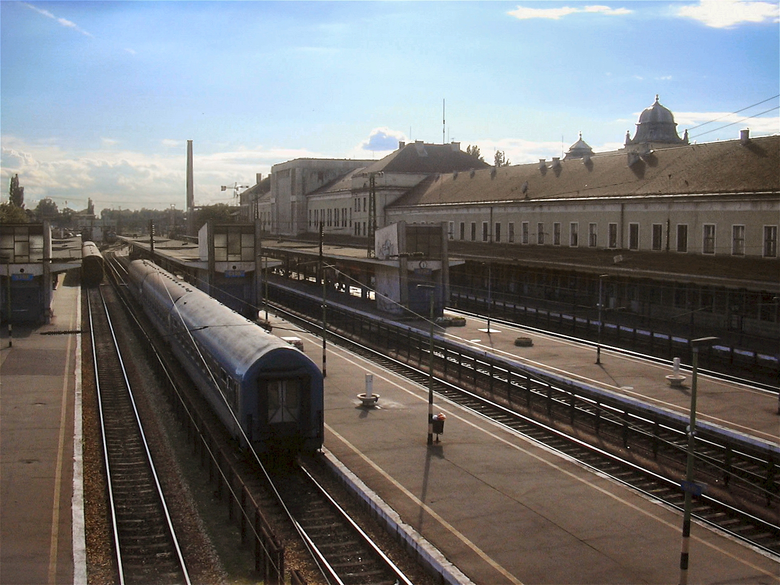 Győr Railway Station